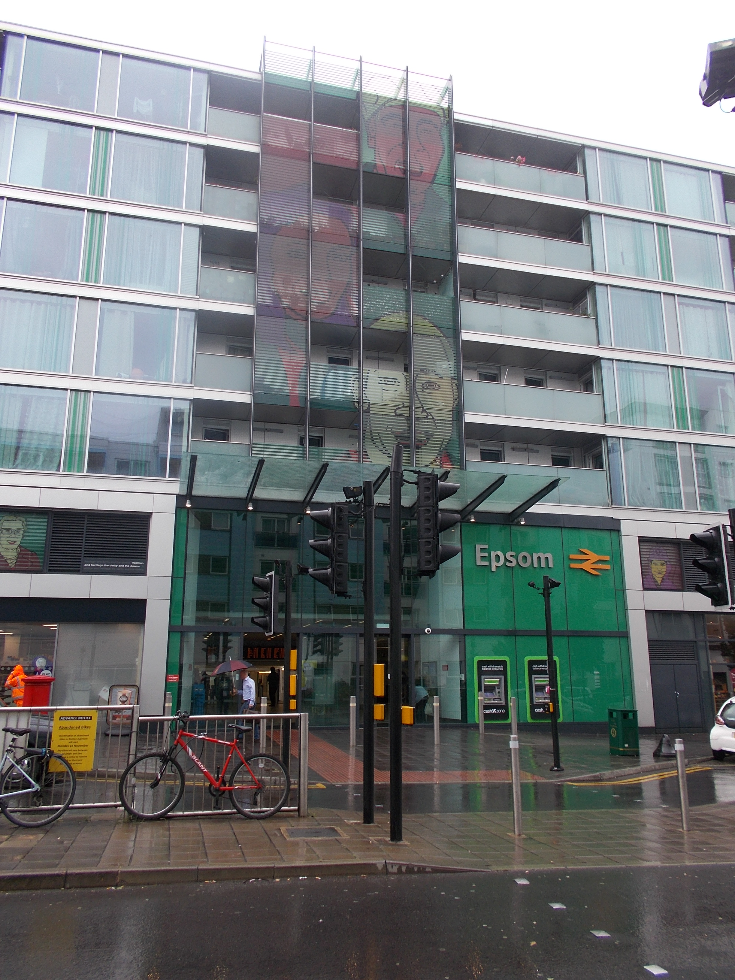 Epsom station building in 2019